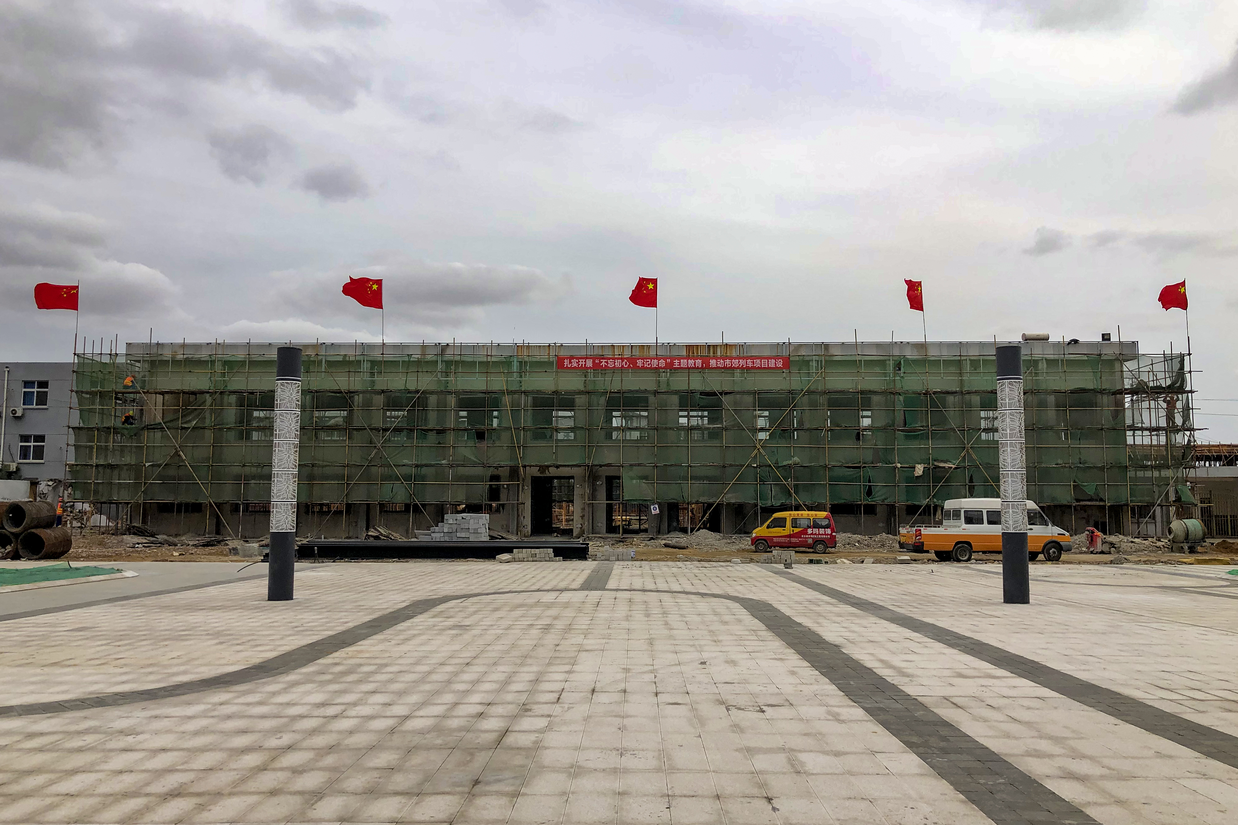 The second station of Longhai Railway.